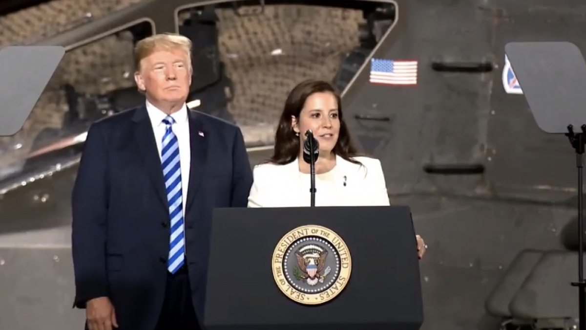 August 13, 2018 Press Release Jefferson County, NY – Today, President Donald Trump traveled to Fort Drum to sign into law the FY’19 National Defense Authorization Act (NDAA). President Trump made this trip at the invitation of Rep. Stefanik. The NDAA, co-written by Congresswoman Elise Stefanik (R-NY-21), includes several provisions she authored. “I am honored that President Trump accepted my invitation and traveled to our district to sign into law the most important national security legislation that Congress writes,” said Congresswoman Stefanik. “President Trump’s visit was an important opportunity to thank our brave men and women in uniform for their service as he signed into law the largest pay raise for our troops in nine years. “This bipartisan bill also strengthens our military readiness, which will help military installations around the country -- including Fort Drum. And as a Member of the House Intelligence Committee, I am also pleased that this legislation includes several provisions to counter Russian aggression and to provide new sanctions on the Russian arms industry.”